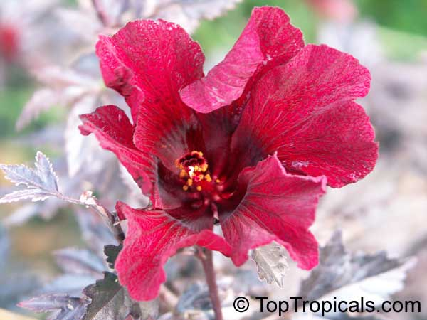 leaves of the cranberry hibiscus planet